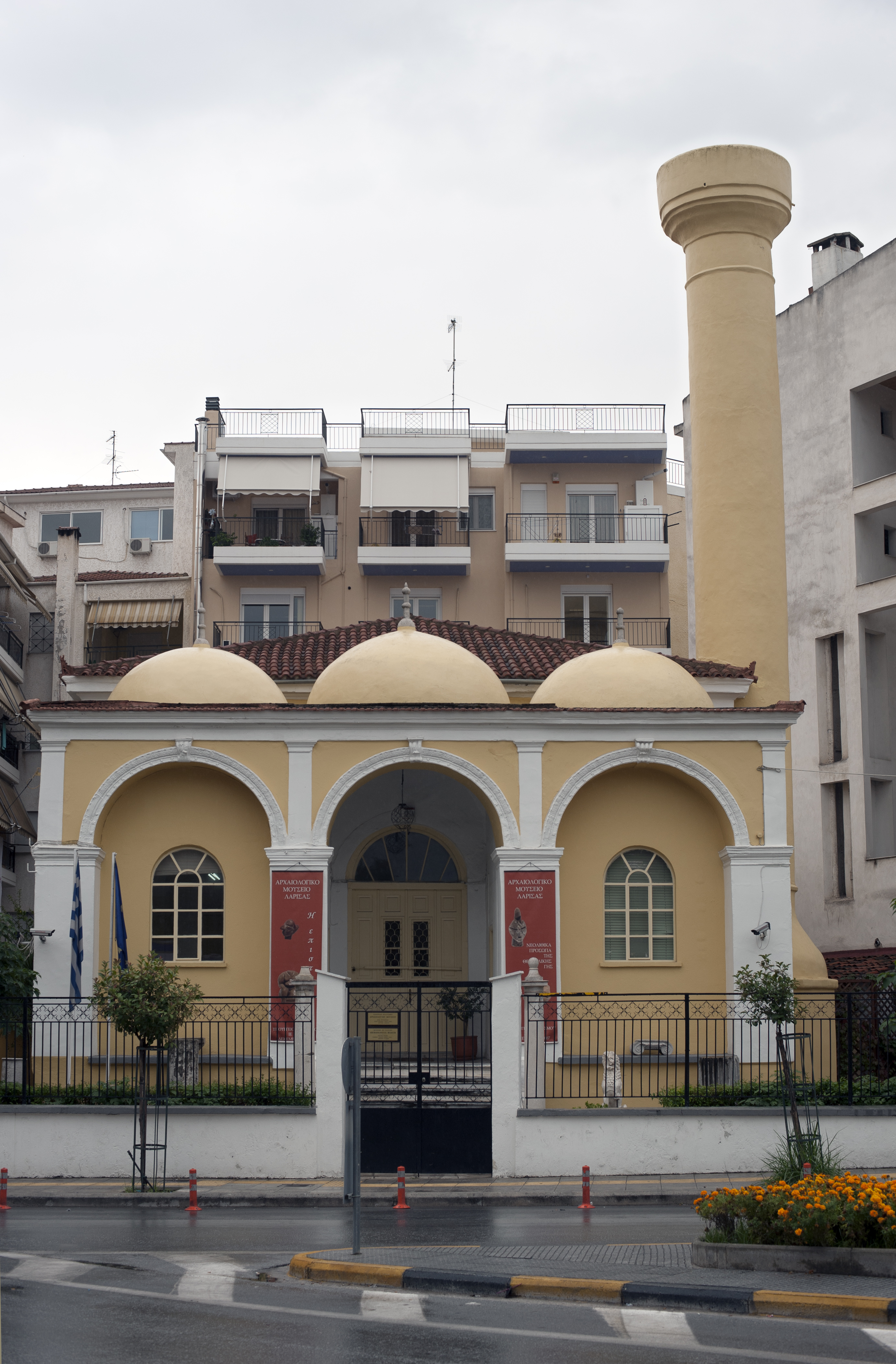 Yeni Mosque - once housed the archeological museum - Larissa, Thessaly, Greece.